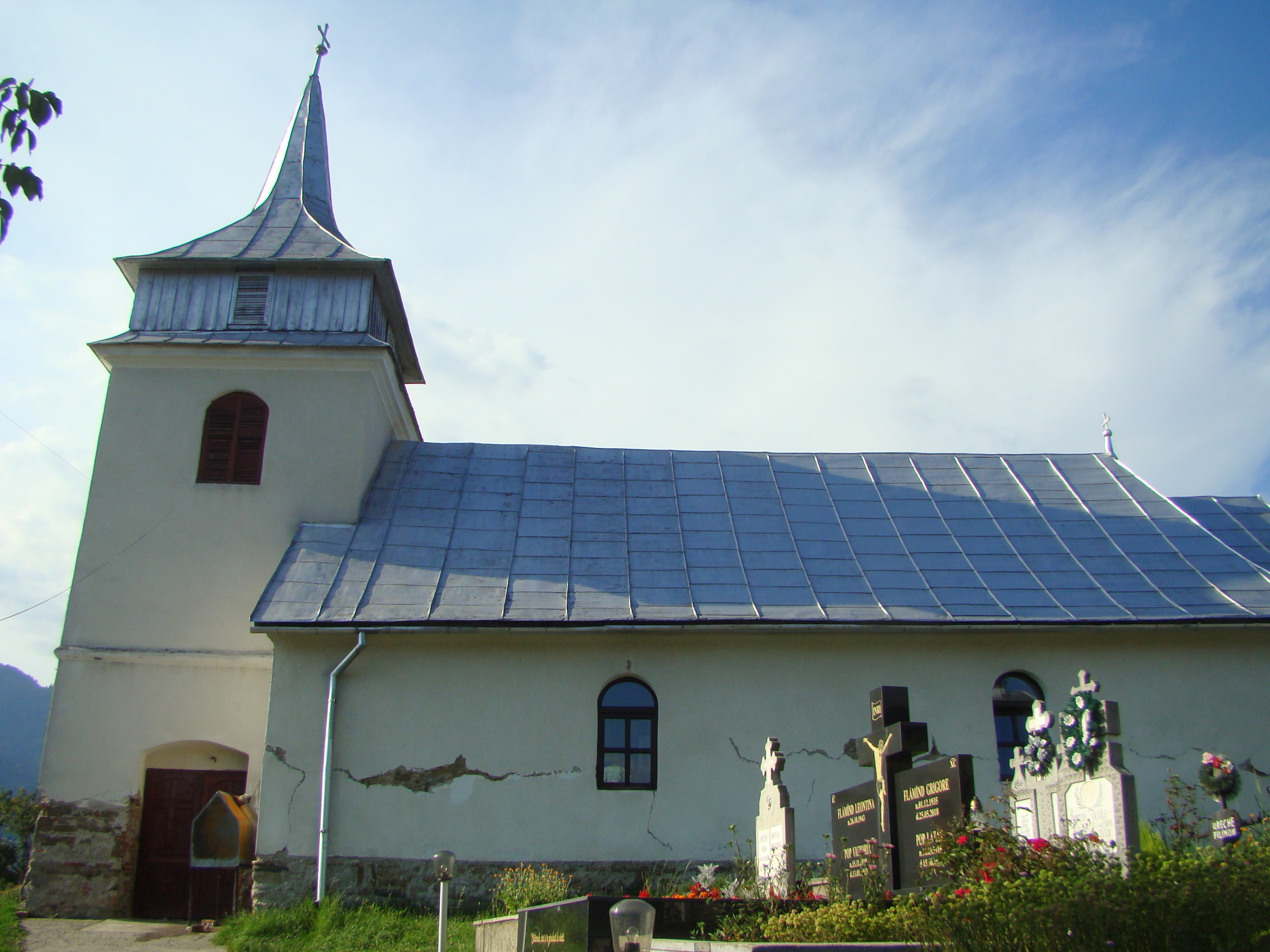 Saint Paraskeva's church in Maieru, Bistrița-Năsăud county, Romania